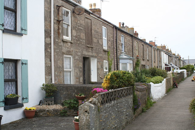 Princess Street St Just St Just was a major mining town when tin mining was at its height and there are many streets like this with dense development of miners' cottages.